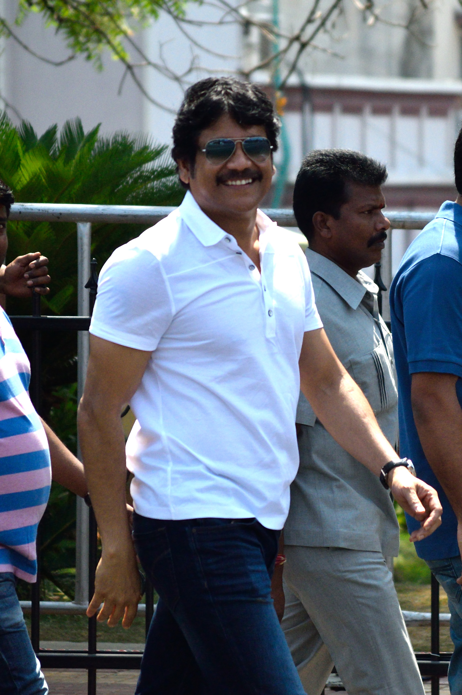 Actor Nagarjuna at F1 Showrun in Hyderabad